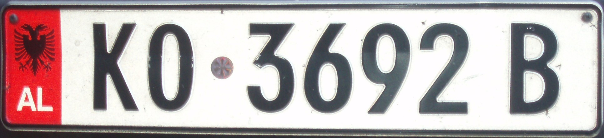 License plates form Albania